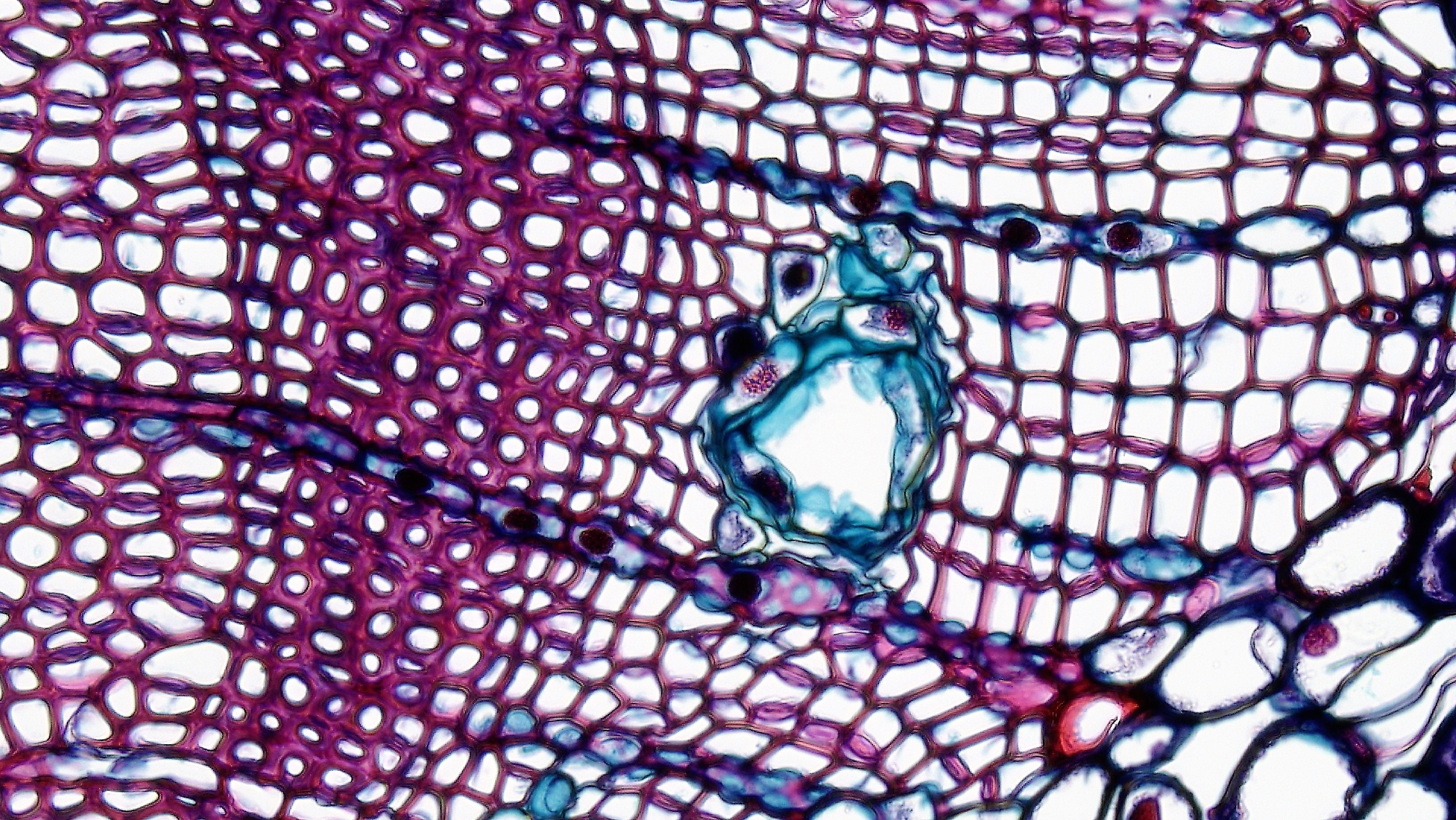 cross section: Pinus stem magnification: 400x During the first year of growth the cutinized epidermis is replaced by protective growth of cork rich periderm. The outer periderm consists of layers of cork cells, the phellem, which produces waterproofing suberin. Cork cells are dead at maturity. Deep to the phellem is a living layer of cork cambium or phellogen and beneath that, layers of cork parenchyma or phelloderm. Many cells in the periderm contain dark staining tannins. The cortex is divided into a thin outer hypodermis of lignified sclerenchyma cells and thicker inner cortex of thin walled parenchyma cells containing chloroplasts. Large resin ducts are surrounded by secretory parenchyma that produces resins and turpentines. Some cells enlarge into dark staining tyloses. Both endoderm and pericycle are inconspicuous. The vascular cylinder or stele in young stems consists of a ring of vascular bundles interspaced with medullary rays of parenchyma cells. Seasonal activity of the cambium replaces the isolated vascular bundles with well-defined annual rings of secondary phloem and xylem. Xylem is endarch with protoxylem found towards center of the stem and younger metaxylem towards the periphery of the stem. Protoxylem consists of annular and spiral tracheids with only tracheids found in metaxylem. True xylem vessels are lacking. Because of the greater production of xylem, the vascular cylinder is dominated by radially arranged rays of secondary xylem interspaced with medullary rays of parenchyma cells. Conspicuous resin ducts are present throughout the xylem. Phloem is endarch but annual growth the of stem makes it difficult to distinguish between older protophloem to the periphery and younger metapholem towards center of the stem. Phloem lacks companion cells, consisting entirely of sieve tubes and phloem parenchyma. Medullary rays in the secondary phloem include protein rich albuminous cells.